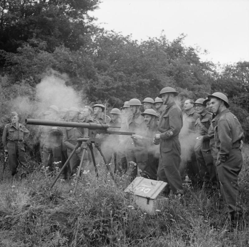 Men of the Saxmundham Home Guard being trained on the Northover Projector by a team of War Office instructors.